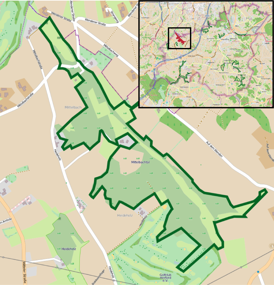 Vlotho - Nature reserve Mittelbachtal - overview map Number and borders of nature reserves are subject to frequent change. In order to facilitate reproduction of this map from openstreetmap, the following data is stored here: export boundaries: north: 52.168; west: 8.768; east: 8.79; south: 52.154; mapnik svg, scale 1:10.000 nature reserve boundary stroke weight 10.0; nature reserve stroke color: R 5, G 102, B 36; municipality border stroke weight: as found